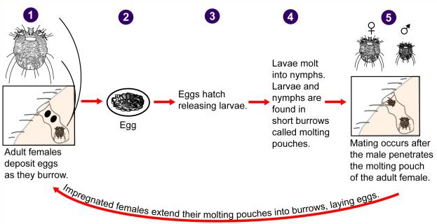 Life cycle of scabies